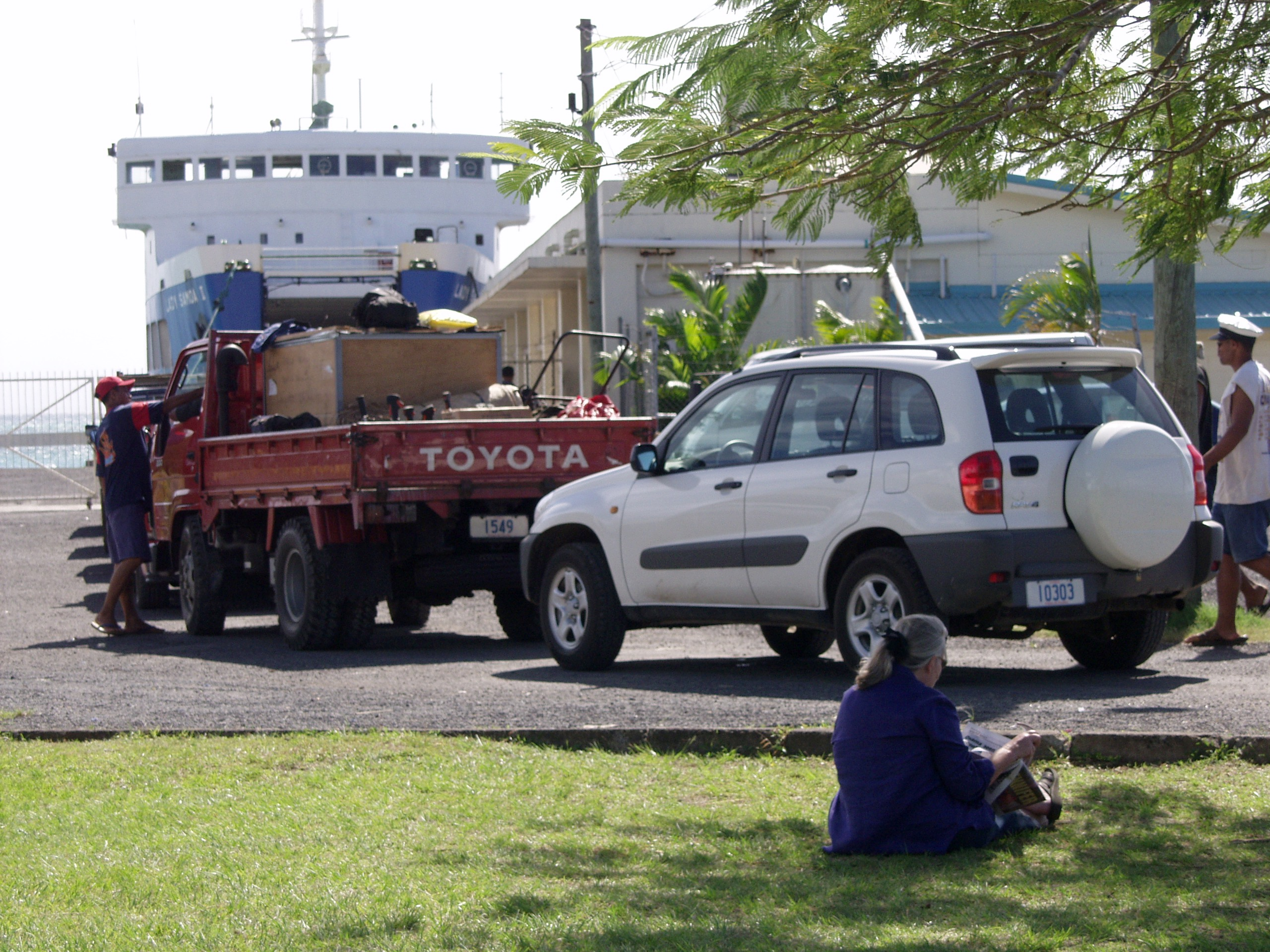 Ferry LADY SAMOA II IMO number: 8802246 Callsign: 5WCK